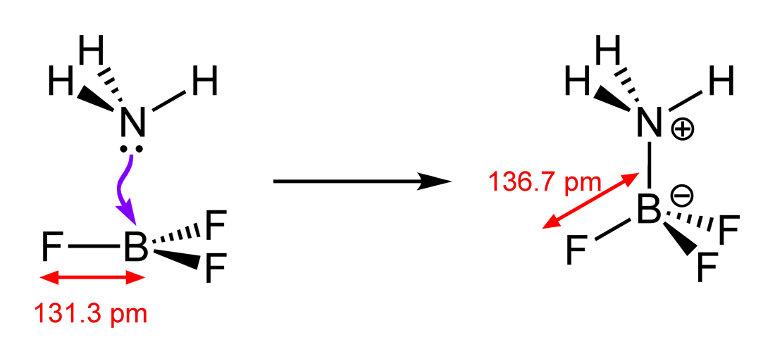 Scheme illustrating the lengthening of B-F bonds as ammonia forms a Lewis adduct with boron trifluoride. Based on discussion in Inorg. Chem., 1997, 36 (14), 3022–3030, which takes its structural data from J. Chem. Soc., Chem. Commun., 1995, 113-114.